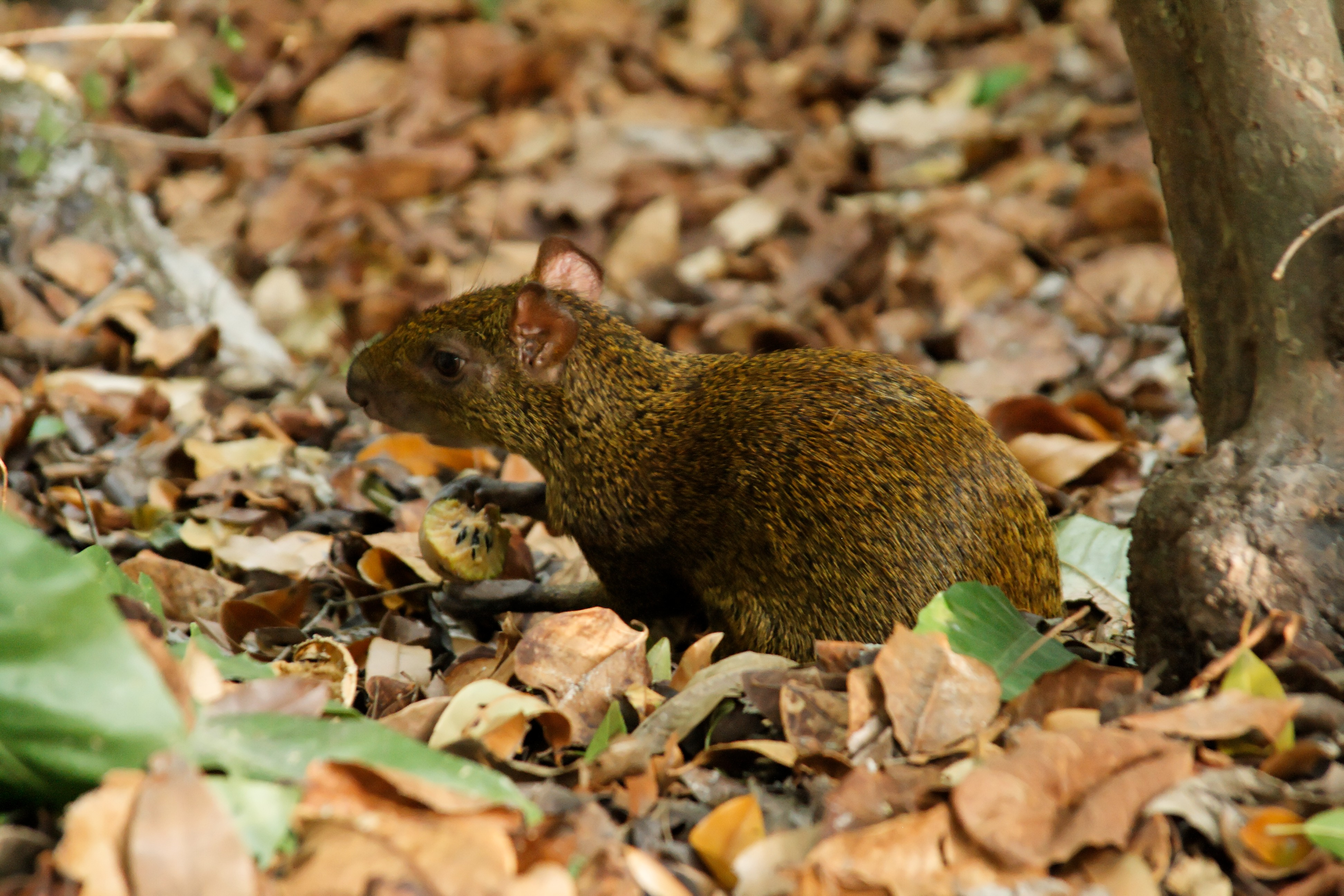 A Central America Agouti (Dasyprocta punctata) eating some fruit